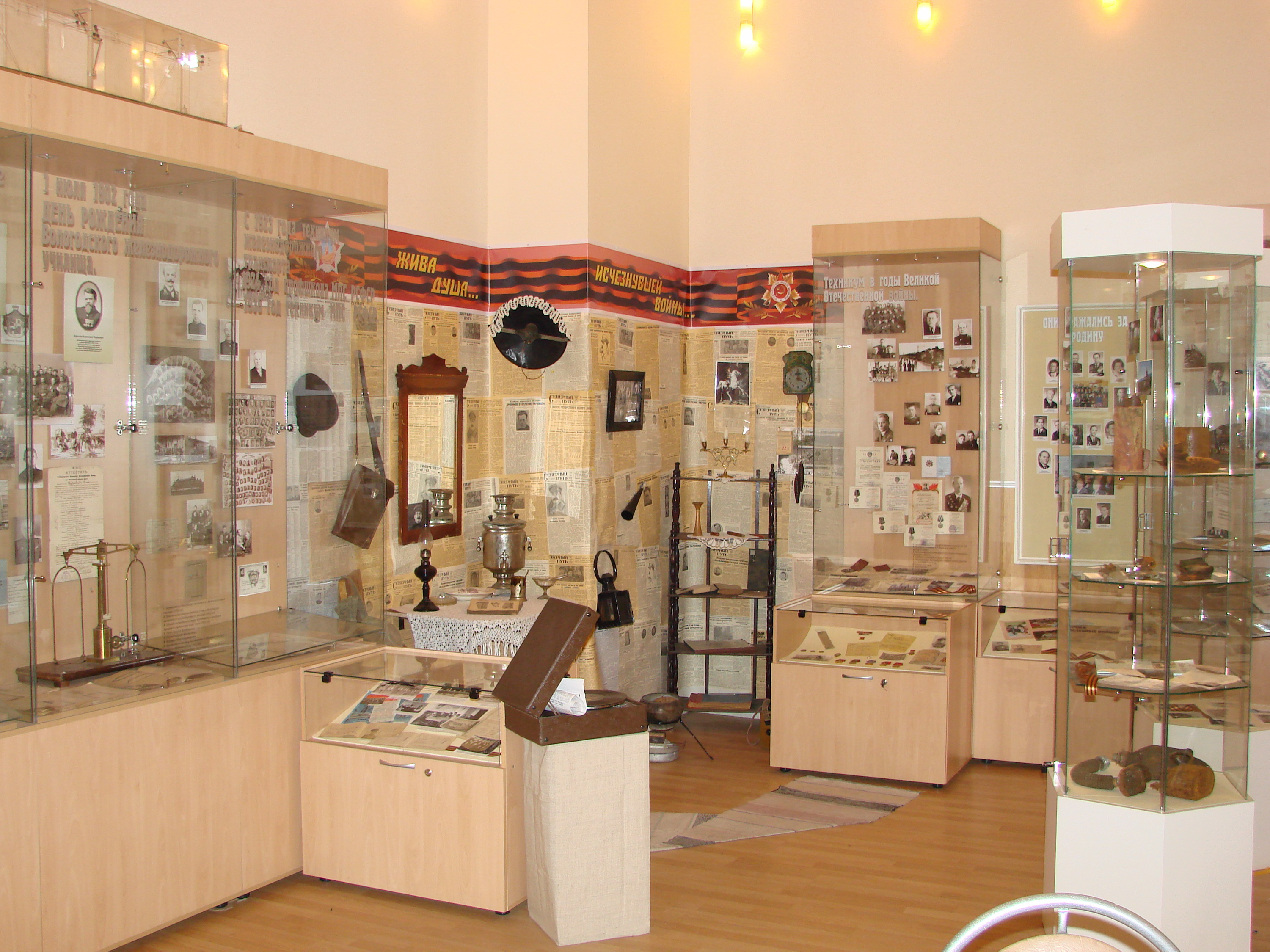 Russia, Vologda, Vologda Railway College Museum